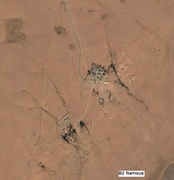 An aerial photography of a former French Army installation in Sahara (ex-French Algeria military territory) called B2 Namous. Photo taken from an helicopter by me in February 2008. I've added the caption "B2 Namous" to the photgraphy. The north position shows the checkpoint, the east position is the main installation with an heliport, the west position is the barracks, the border shows the defensive perimeter. Installation is now abandonned.